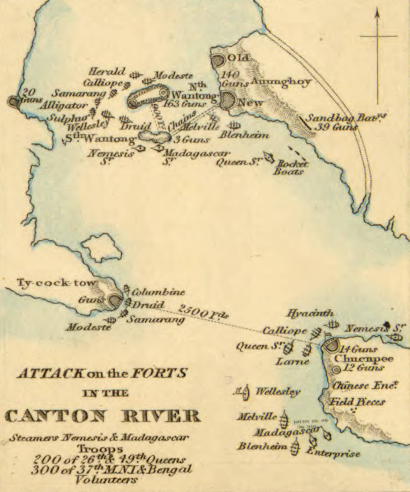 Attack on the forts in the Canton River. Inset of "A map to illustrate the war in China / compiled from surveys & sketches of British officers and other information by James Wyld".